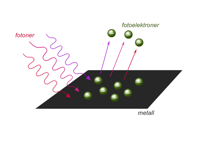 Illustration of the principle behind the photoelectric effect.